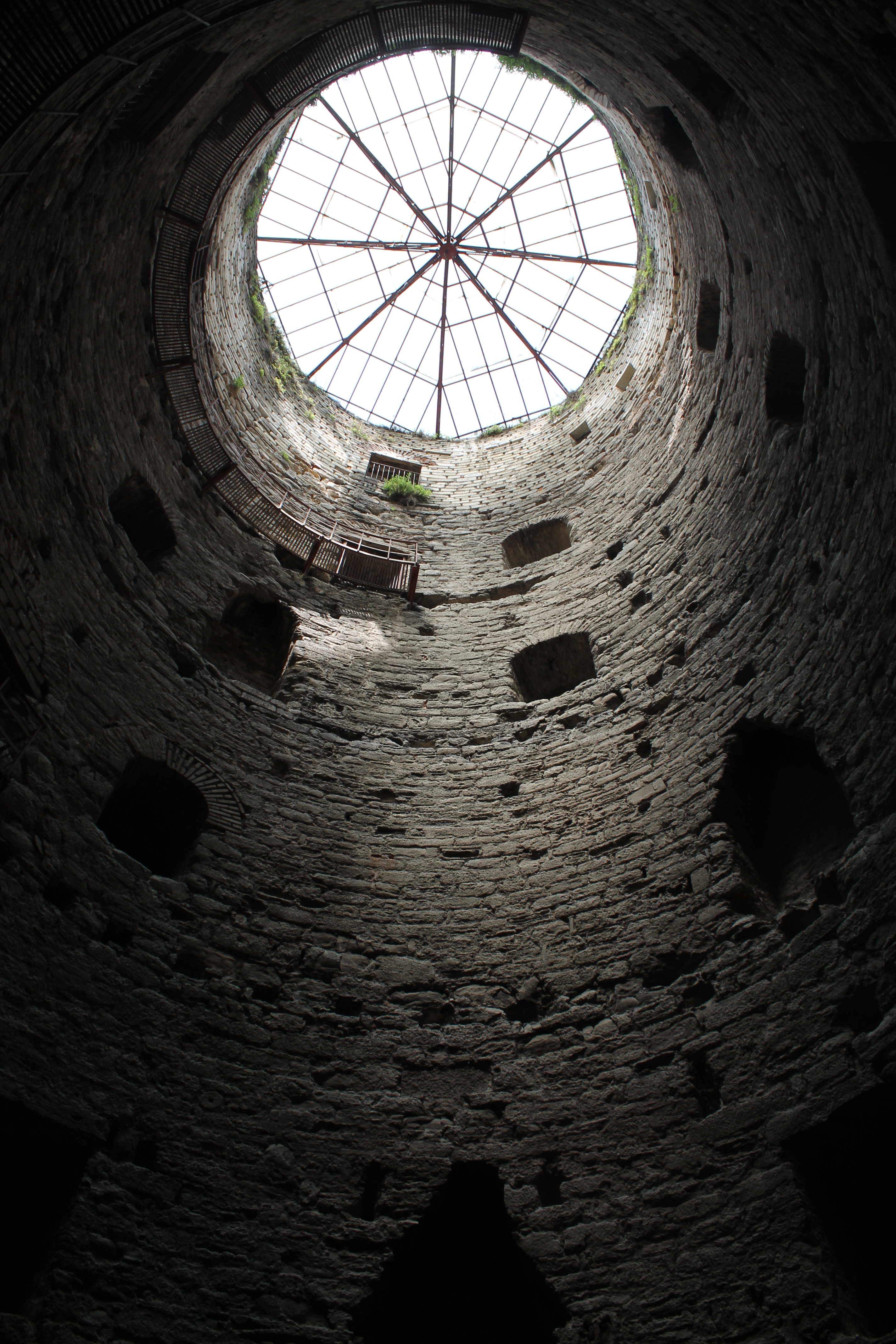 Yedikule Fortress